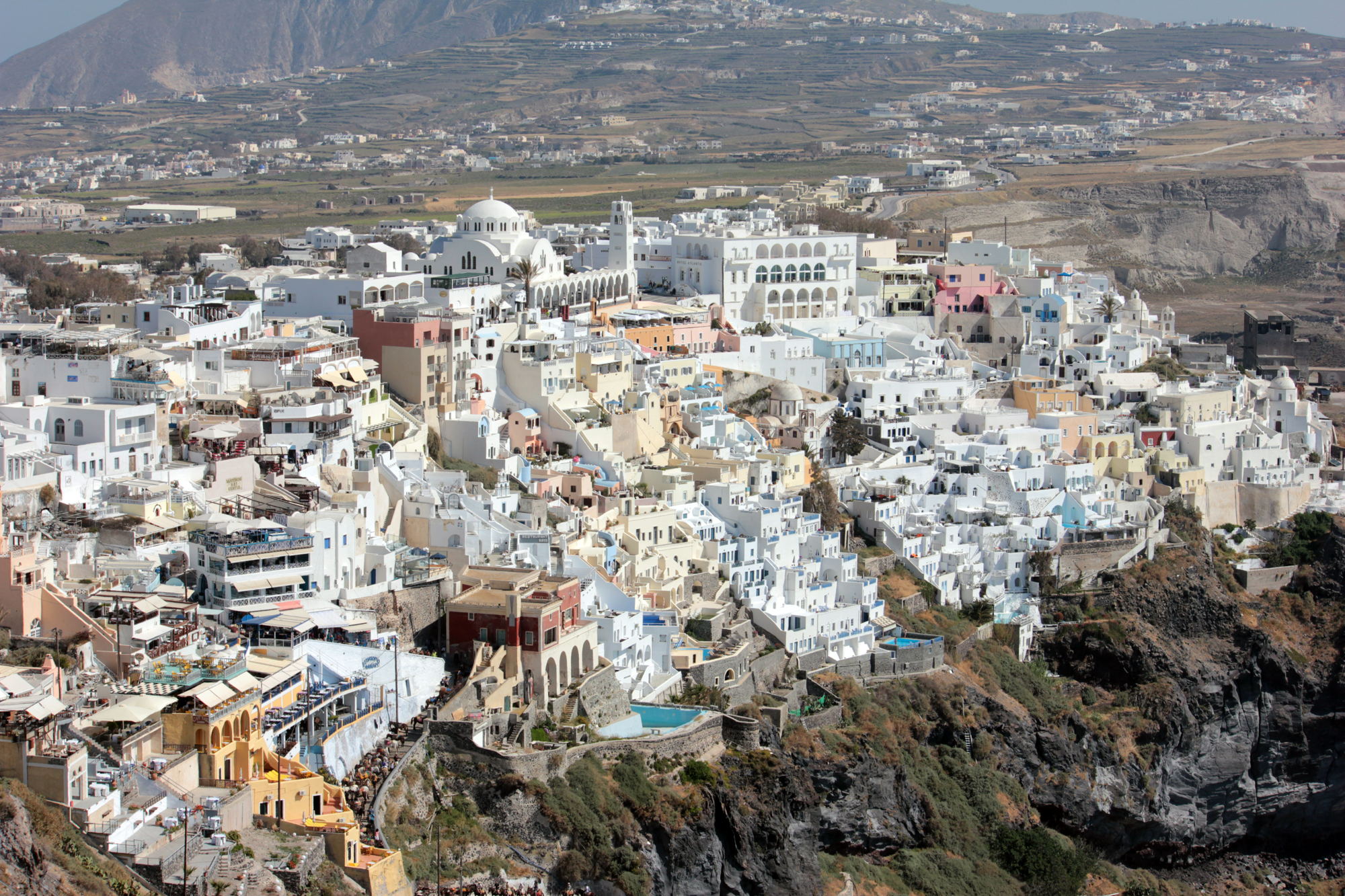 Santorini's main town Fira